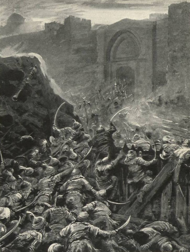 Credit: The Fall of Constantinople, illustration from 'Hutchinson's History of the Nations', 1915 (litho), Dudley, Ambrose (fl. 1920s) / Private Collection / The Bridgeman Art Library IL 322142 Image number: The Fall of Constantinople, illustration from 'Hutchinson's History of the Nations', 1915 (litho) Title: Dudley, Ambrose (fl. 1920s) Primary creator: British Nationality: Private Collection Location: lithograph Medium: The Fall of Constantinople refers to the capture of the Byzantine Empire's capital by the Ottoman Empire on Tuesday, May 29, 1453; Under Constantine XI's leadership the city held out day after day for nearly two months. But on 29th May, 1453, the Turks broke in; Description: 1915 (C20th) Date: Historical Events BC - 1499 Categories: Vertical